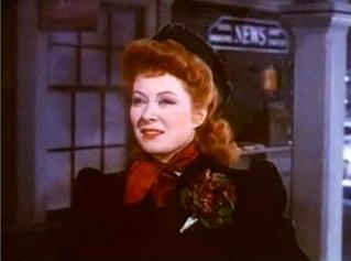 Cropped screenshot of Greer Garson from the trailer for the film Blossoms in the Dust